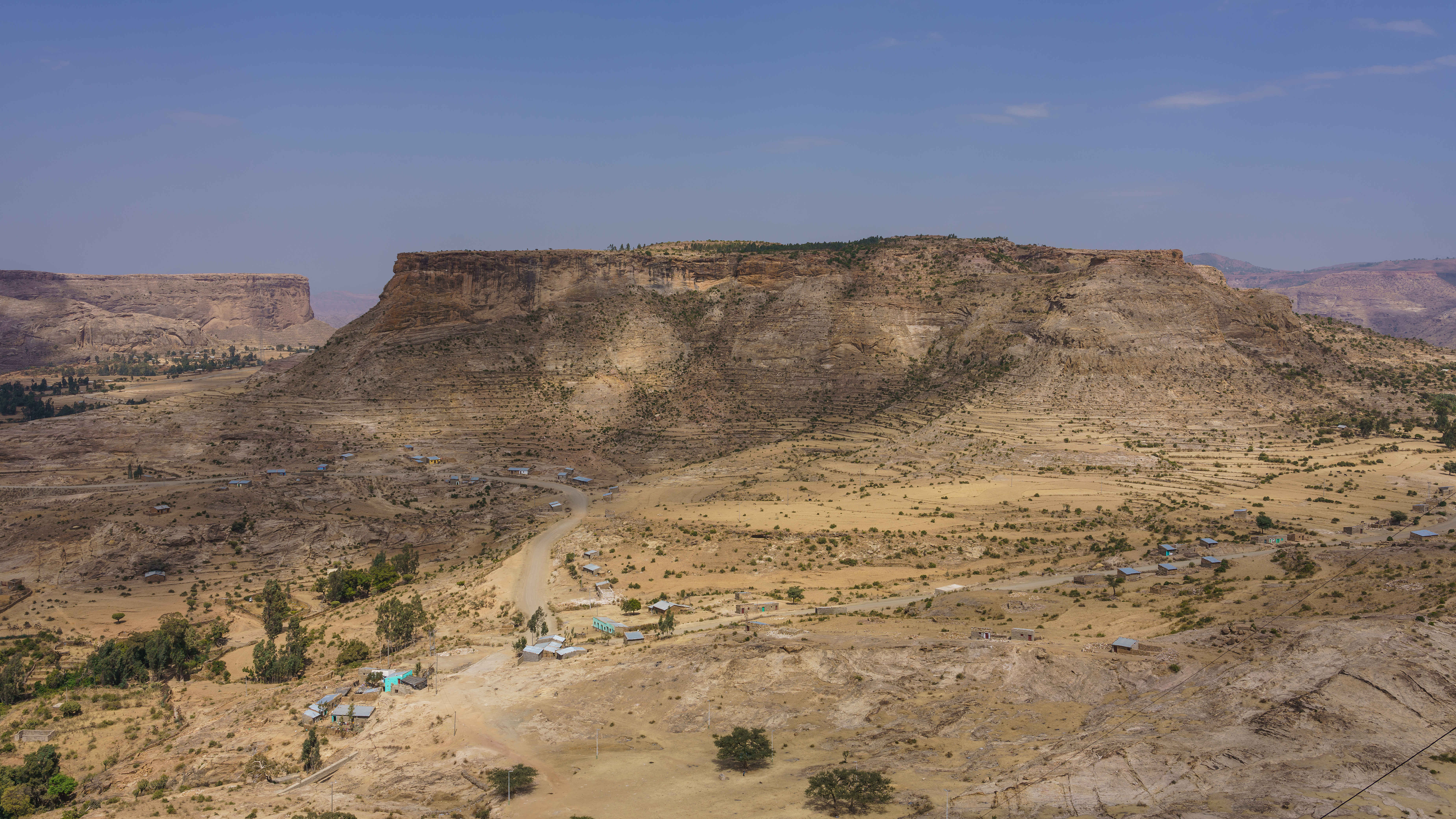 View from Debre Damo monastery in Tigray Region, Ethiopia